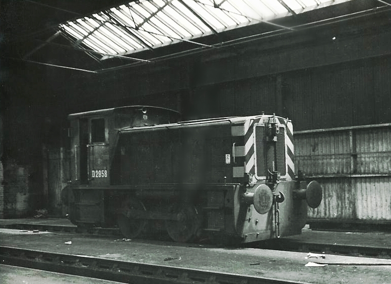 Ruston & Hornsby 165hp 0-4-0 diesel shunter No.D2958 (ex-No.11508) in BR green livery at Stratford MPD, 07/67. One of only two built and both allocated to Stratford MPD. Scanned photograph taken with a Kowa SET camera.